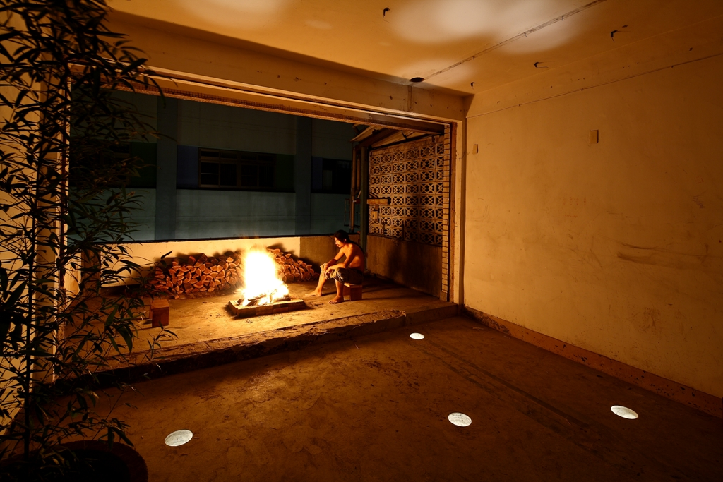 Fireplace at the Ruin Academy, Taipei. Photo: AdDa